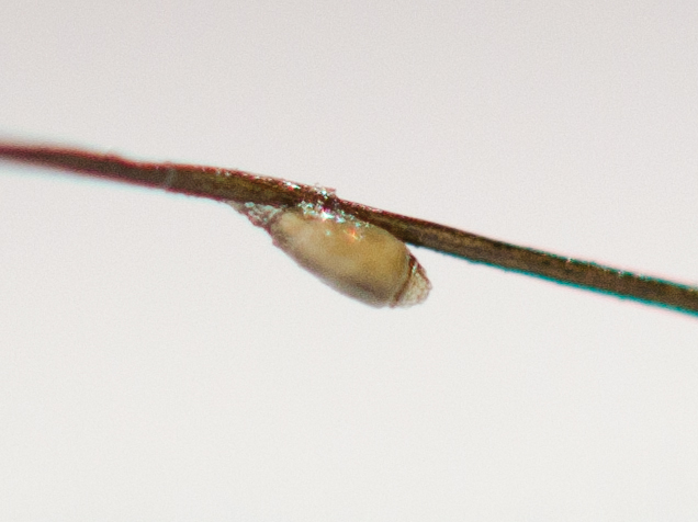 Crab egg on humain body hair